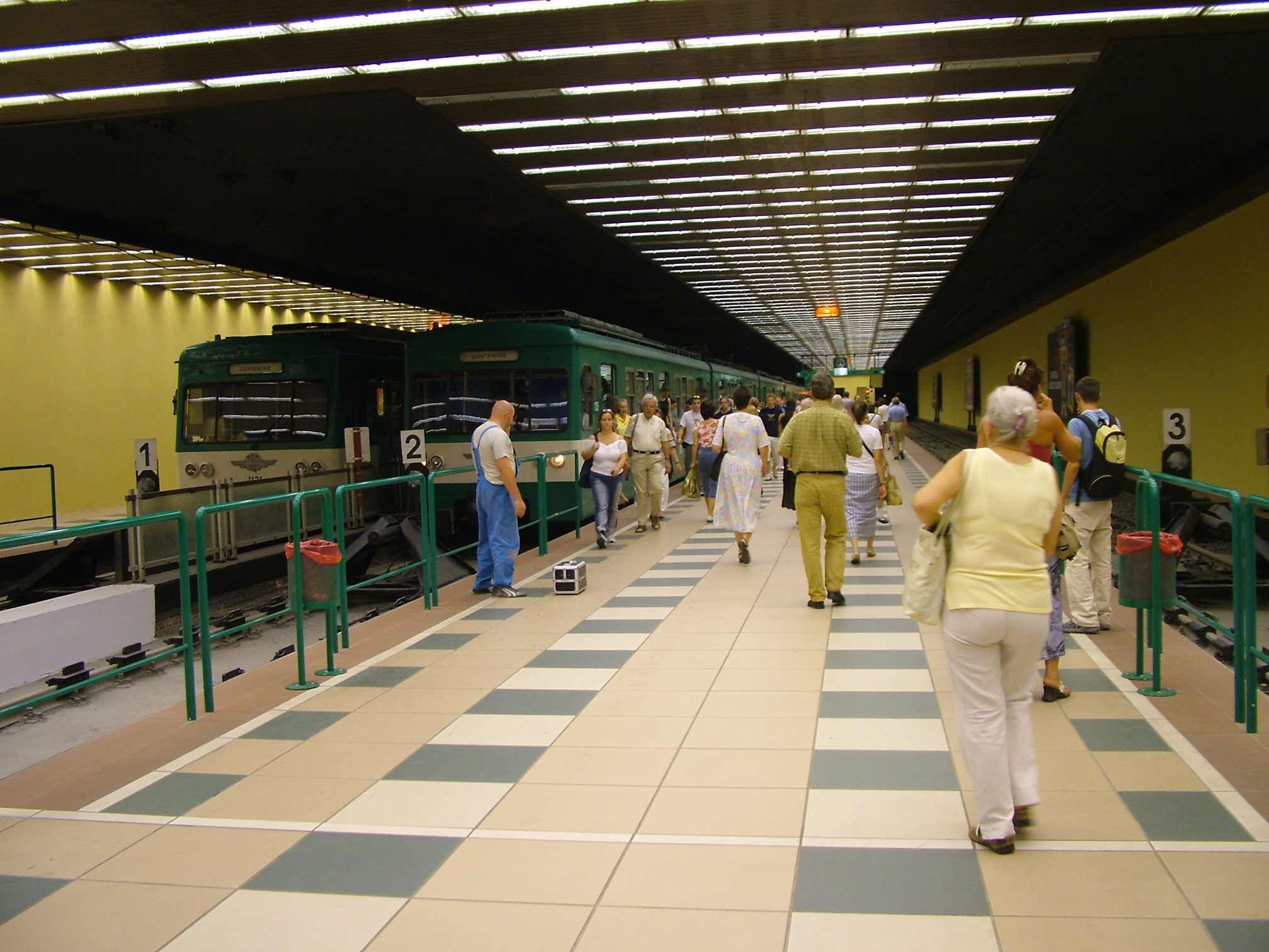 Batthyány square terminal on Budapest Suburban rail Szentendre line